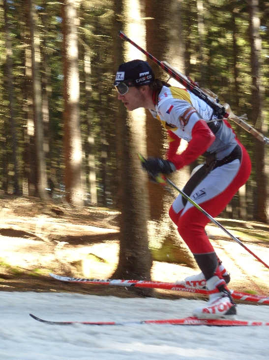 Zdeněk Vítek on his way to catch bronze medal in relay competition (Europian Biathlon Champ. 2008)